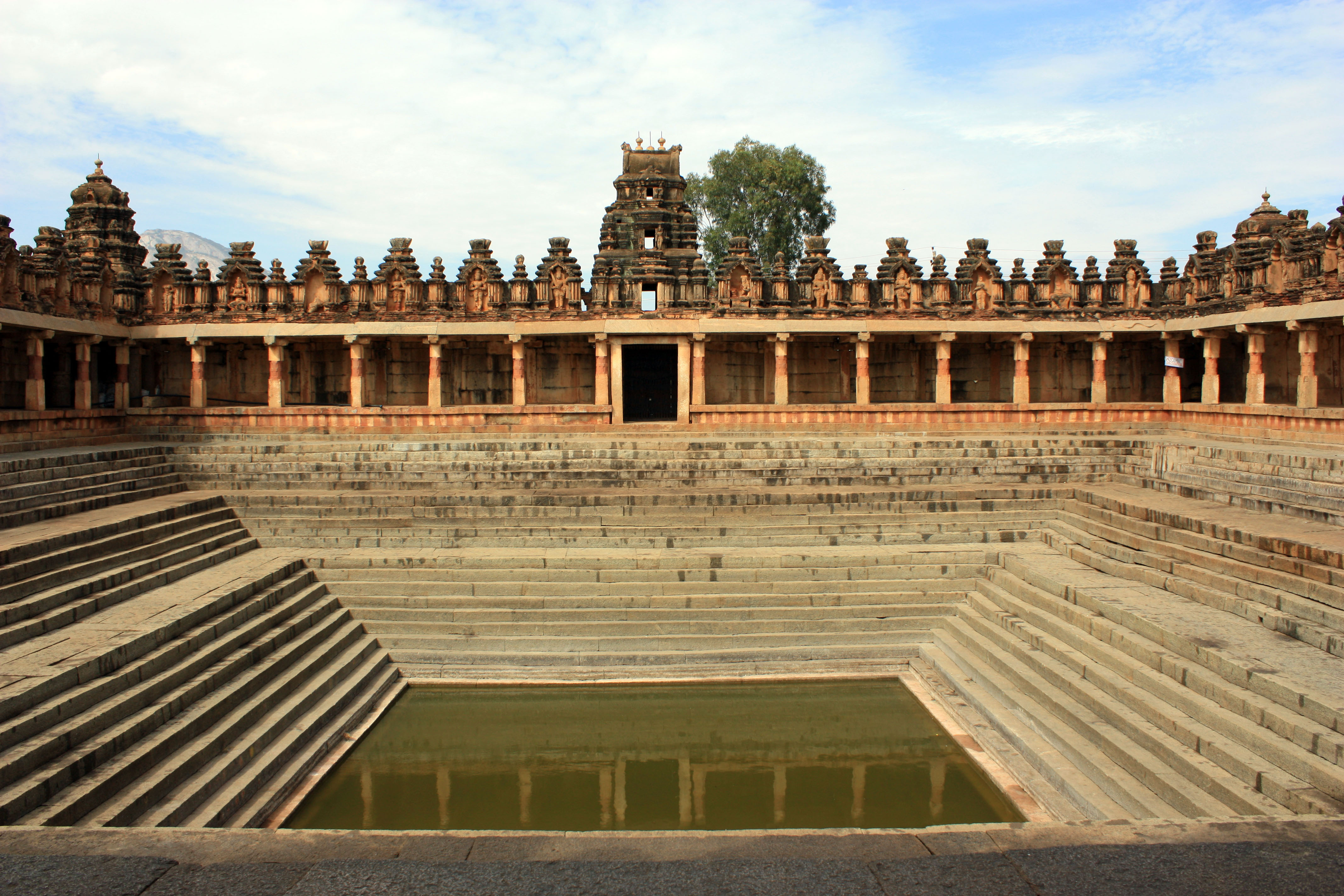 Step well at Bhoganandishwara Temple, Nandi hills